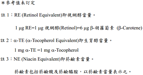 Nutrition facts label format 2-3 of Taiwan